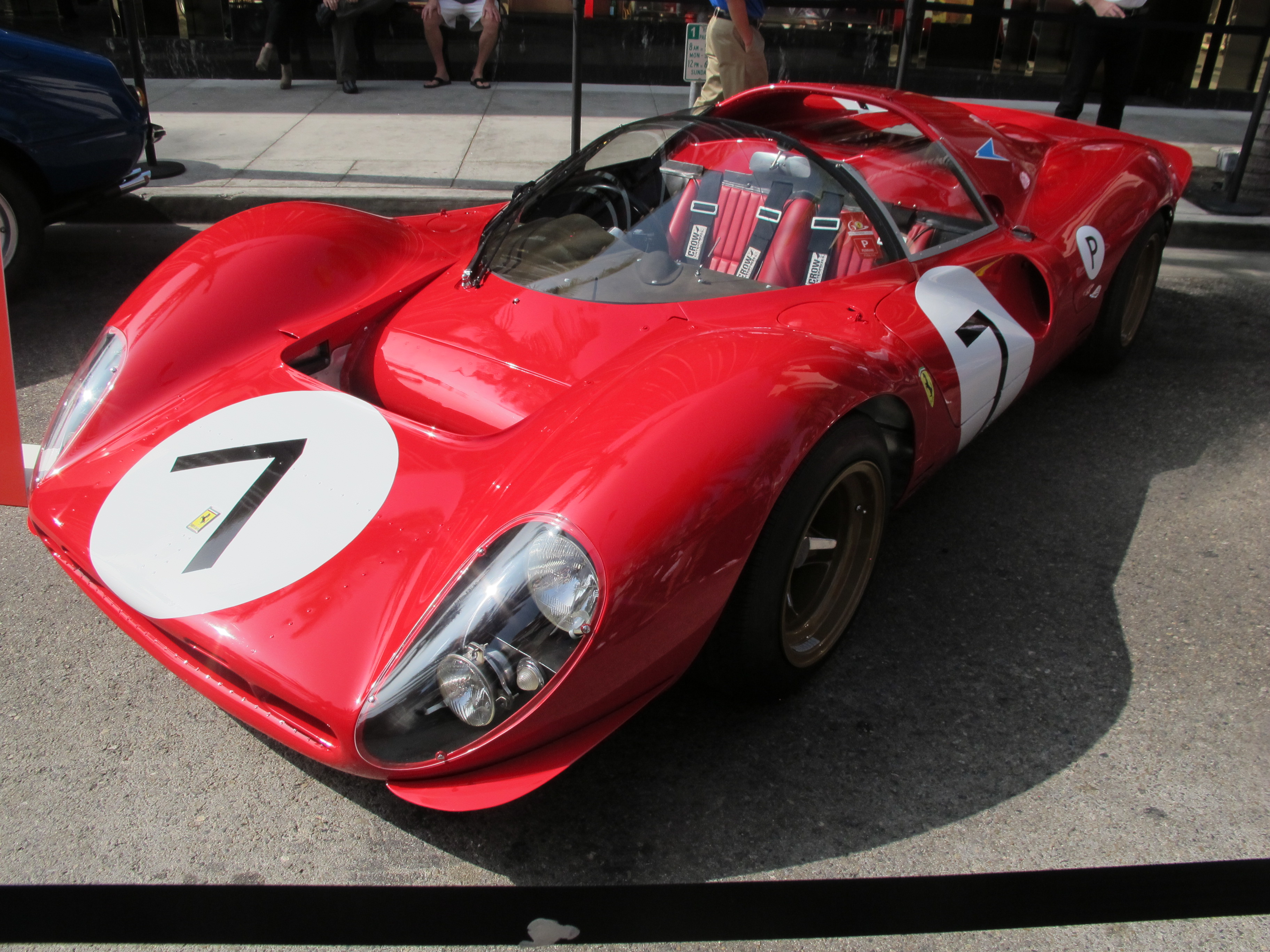 A Ferrari 330 P4 racing car shown at the Ferrari 60th anniversary celebration in Beverly Hills